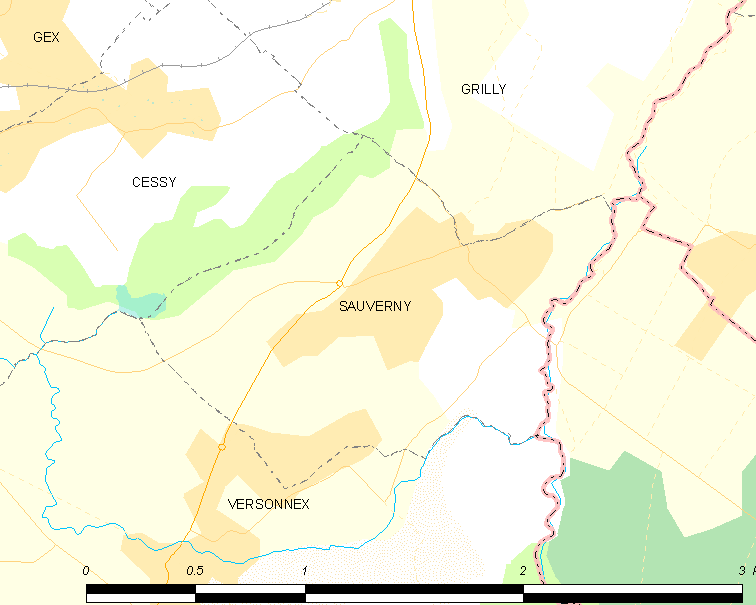 Map of French commune: Sauverny Map commune FR insee code 01397.png